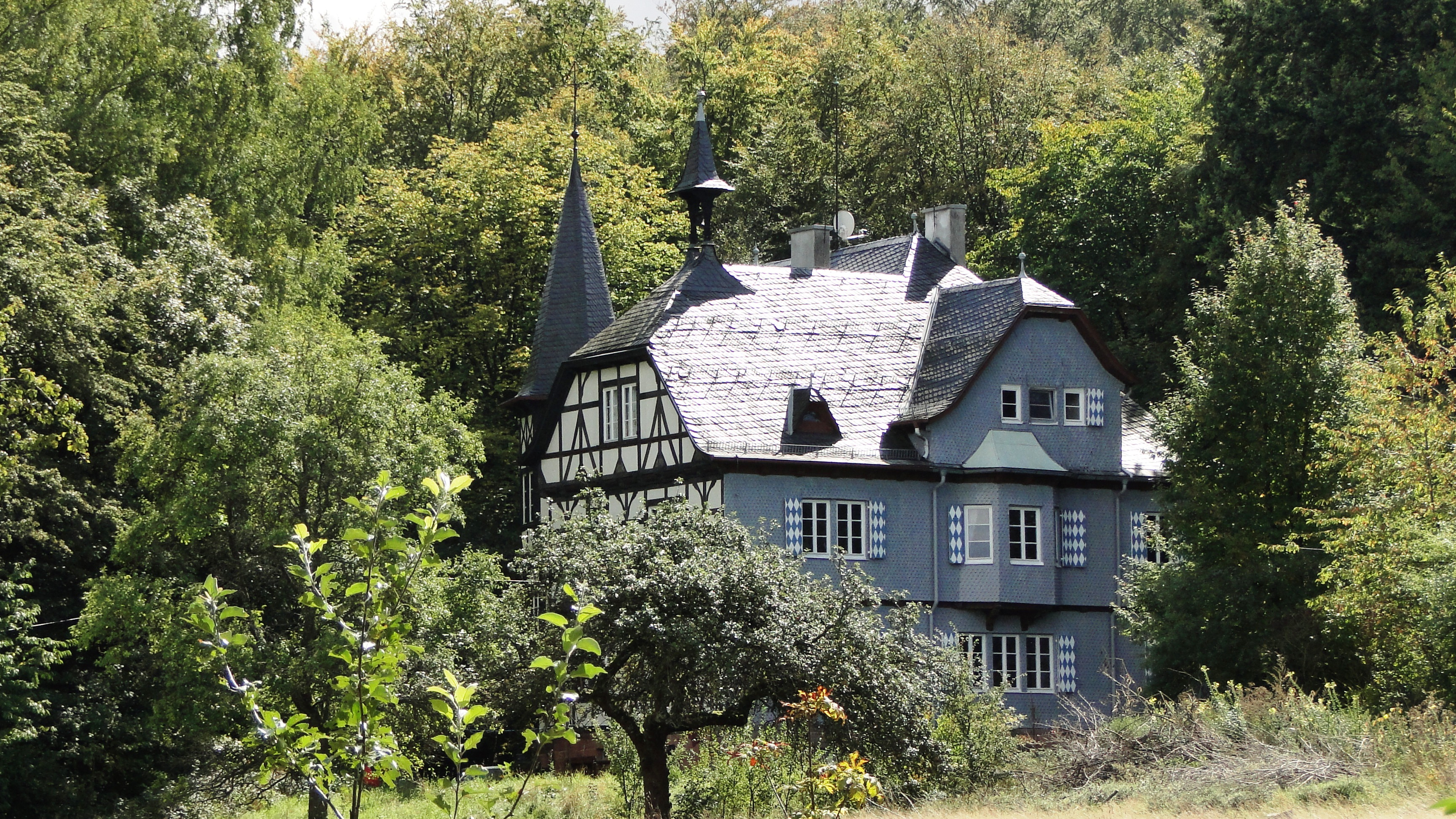 Schloss Luitpoldshöhe near Rohrbrunn, Bavaria, Germany; hunting lodge used by Prince Luitpold of Bavaria